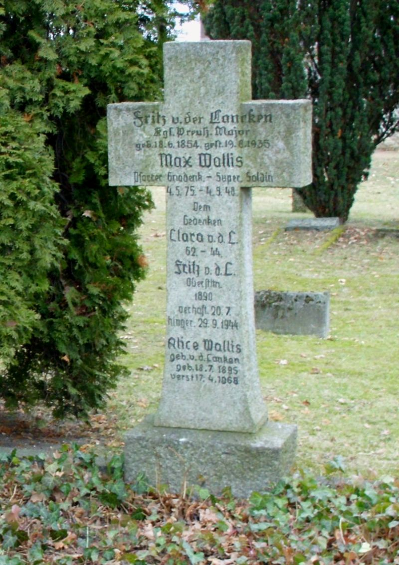 Grave of Family von der Lancken and Family Wallis